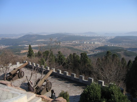 A view of the harbor and town at Lushun, formerly Port Arthur, in 2005 from an old Japanese fortification.